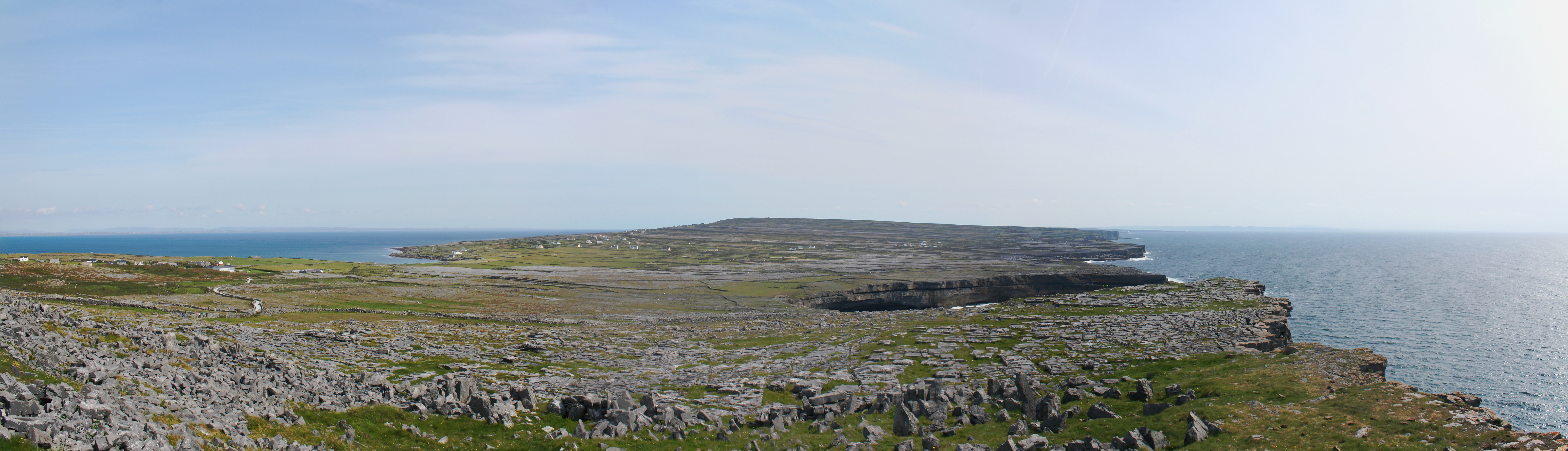 Central Inishmore from Dun Aengus